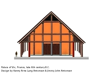 Vix palace. Based on drawing from Dr.M.N Filgis & K.B. Rothe.